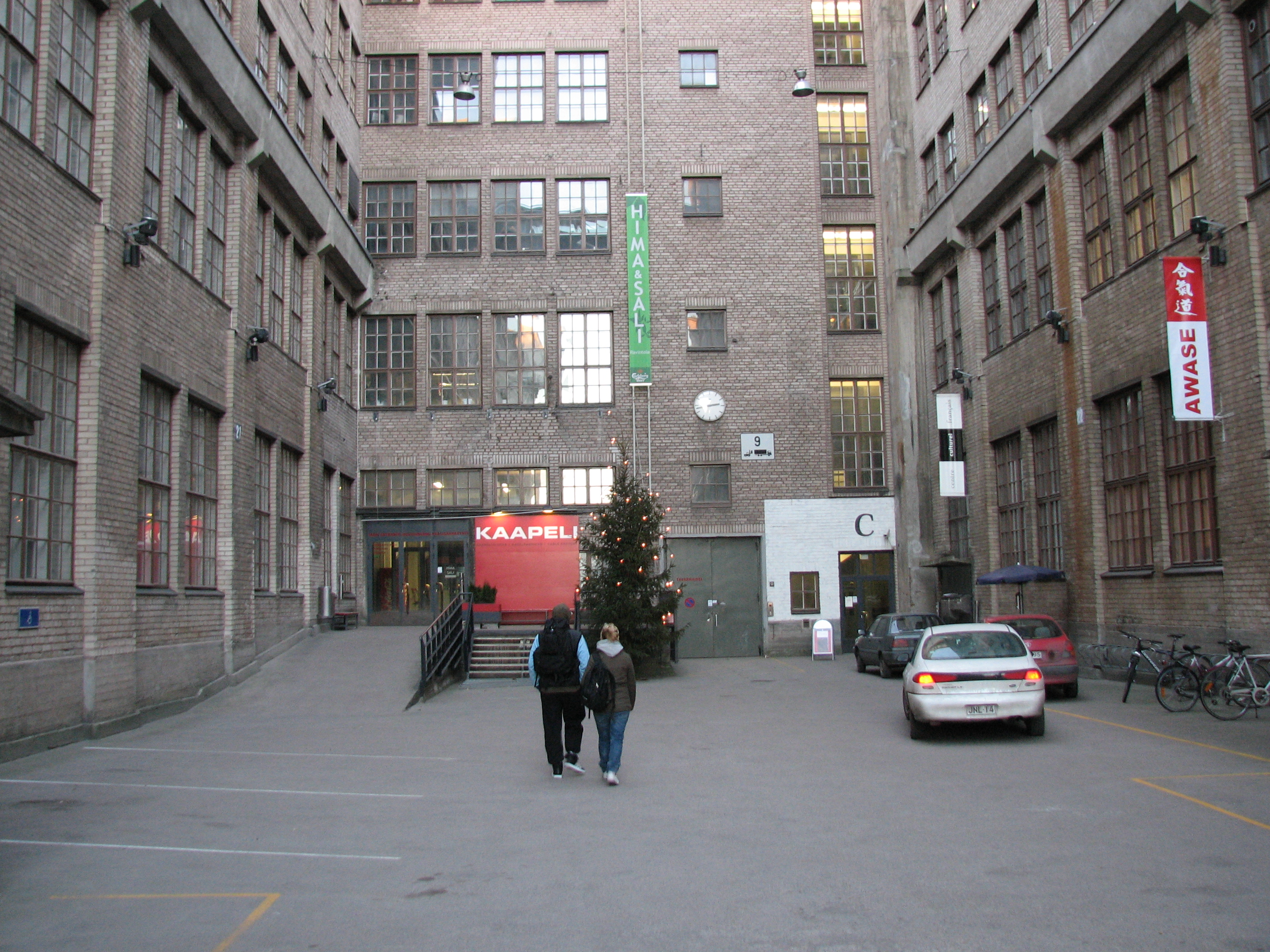 The inside yard at Kaapelitehdas, Helsinki, Finland.